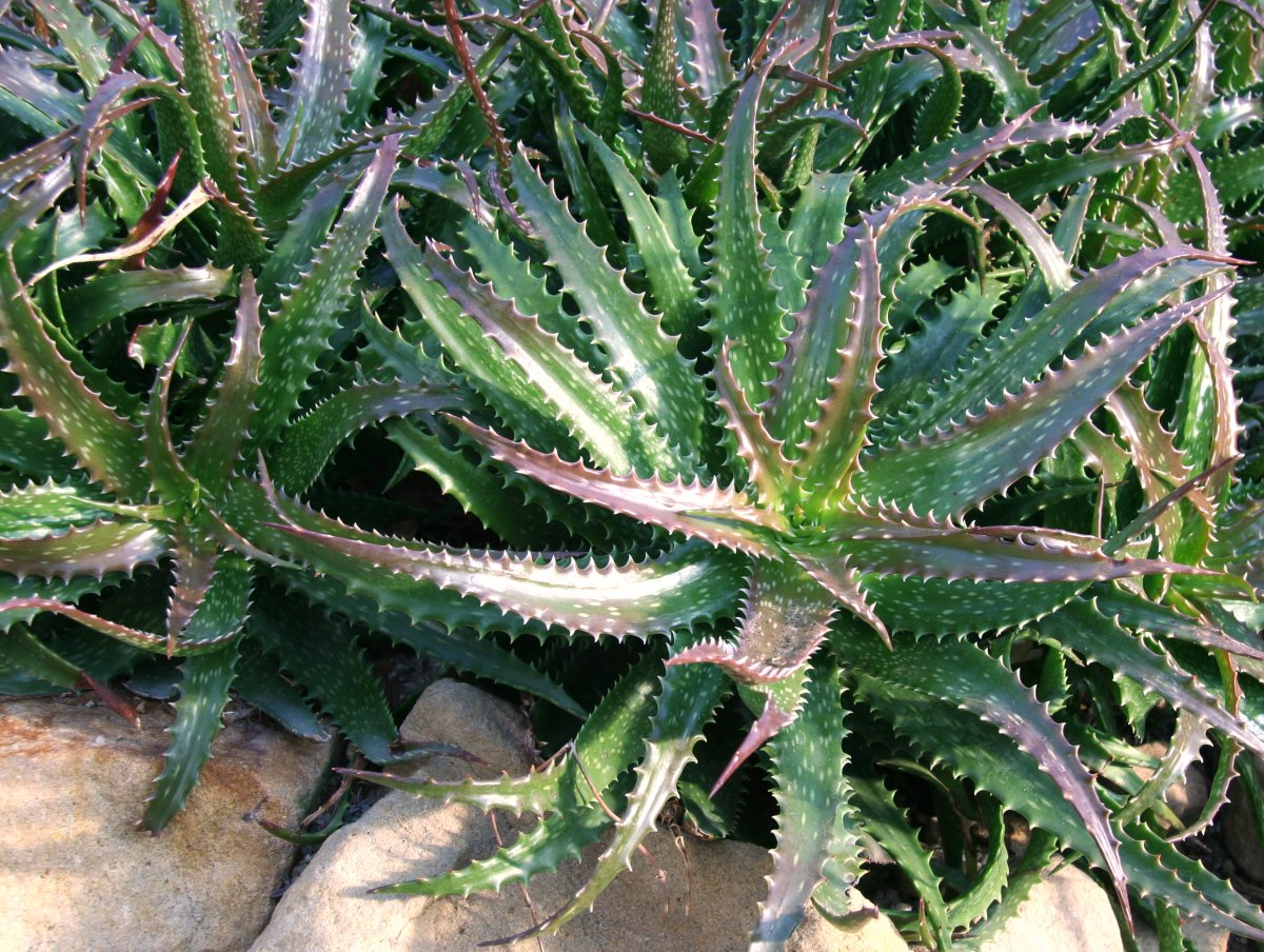 Aloe dorotheae